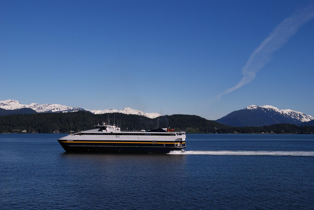 Alaska Marine Highway RoRo ferry the Fairweather